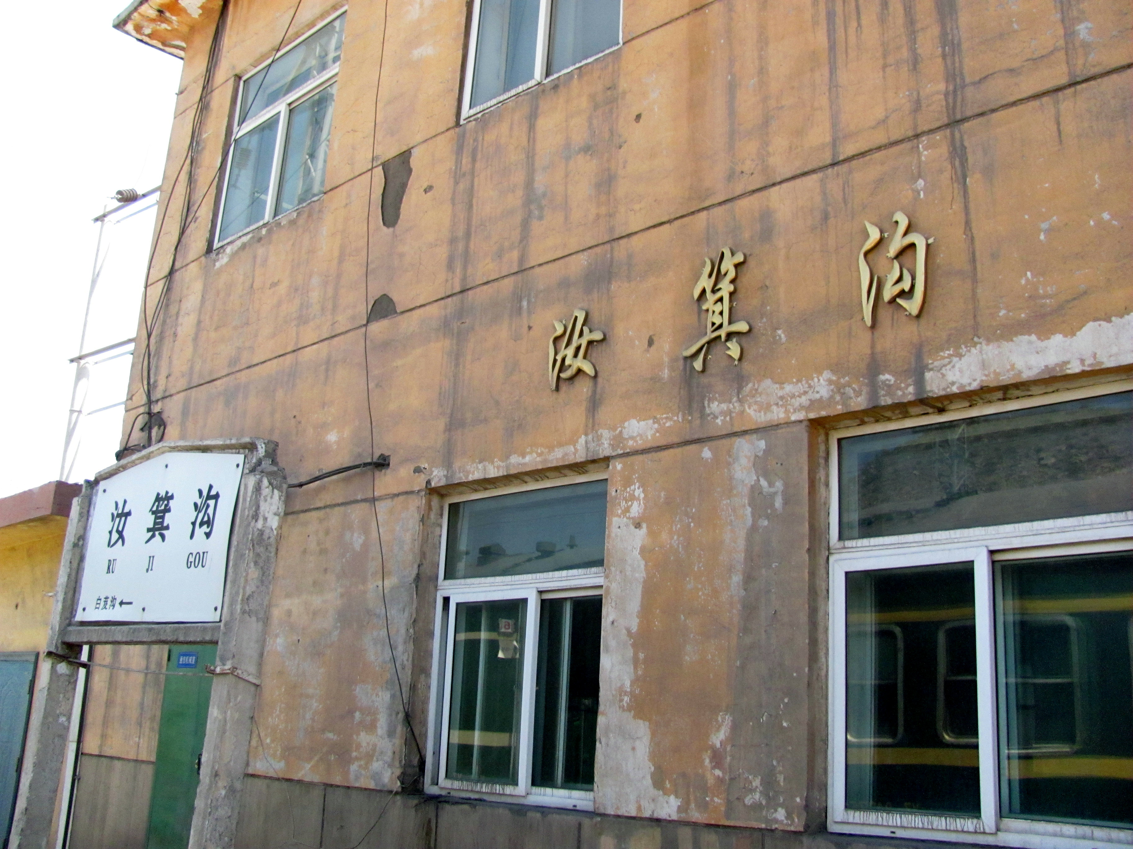 Rujigou Railway Station